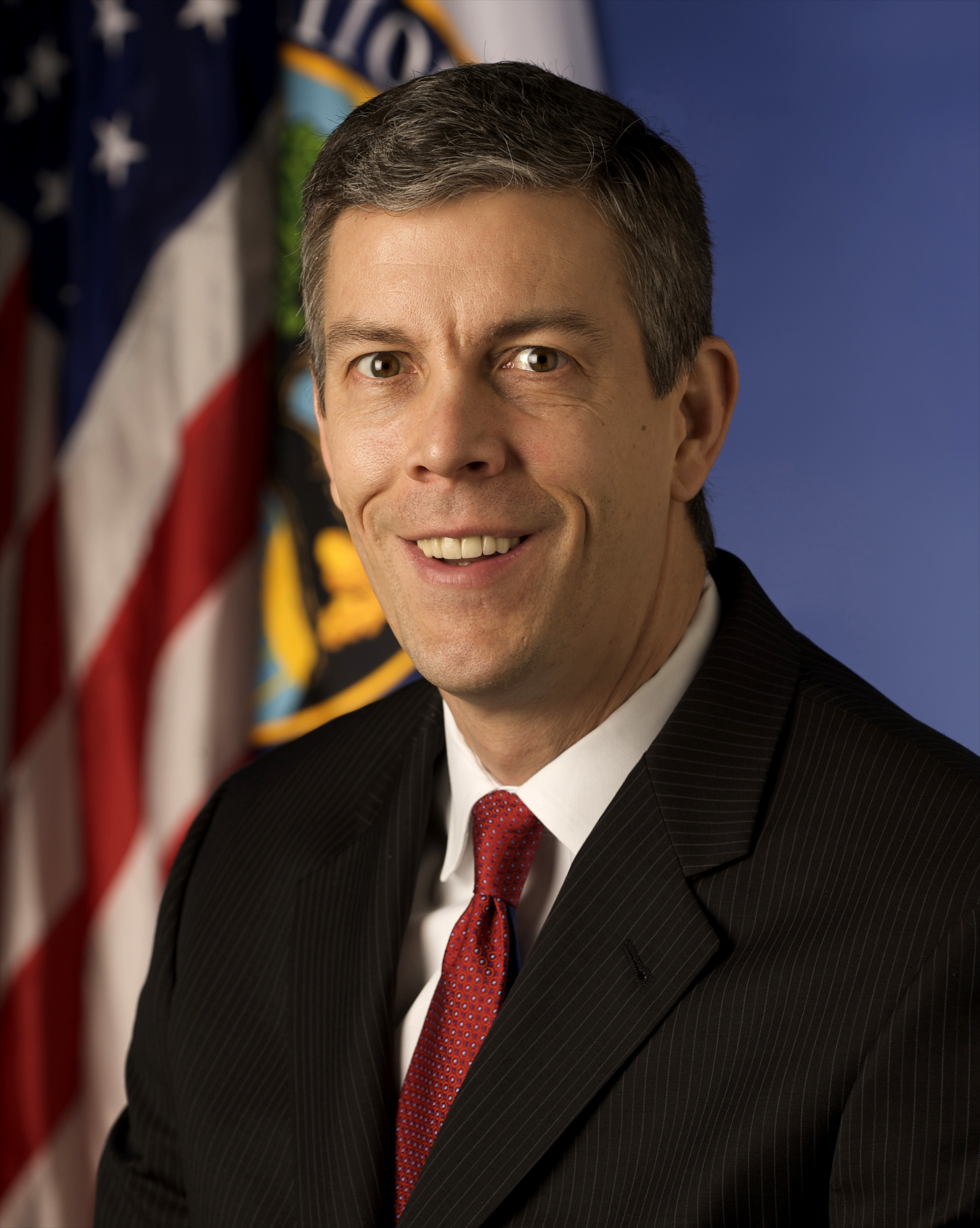 Photo of Education Secretary Arne Duncan (2009-). The original photo can be found in the "Color photo—Print quality" zip file.